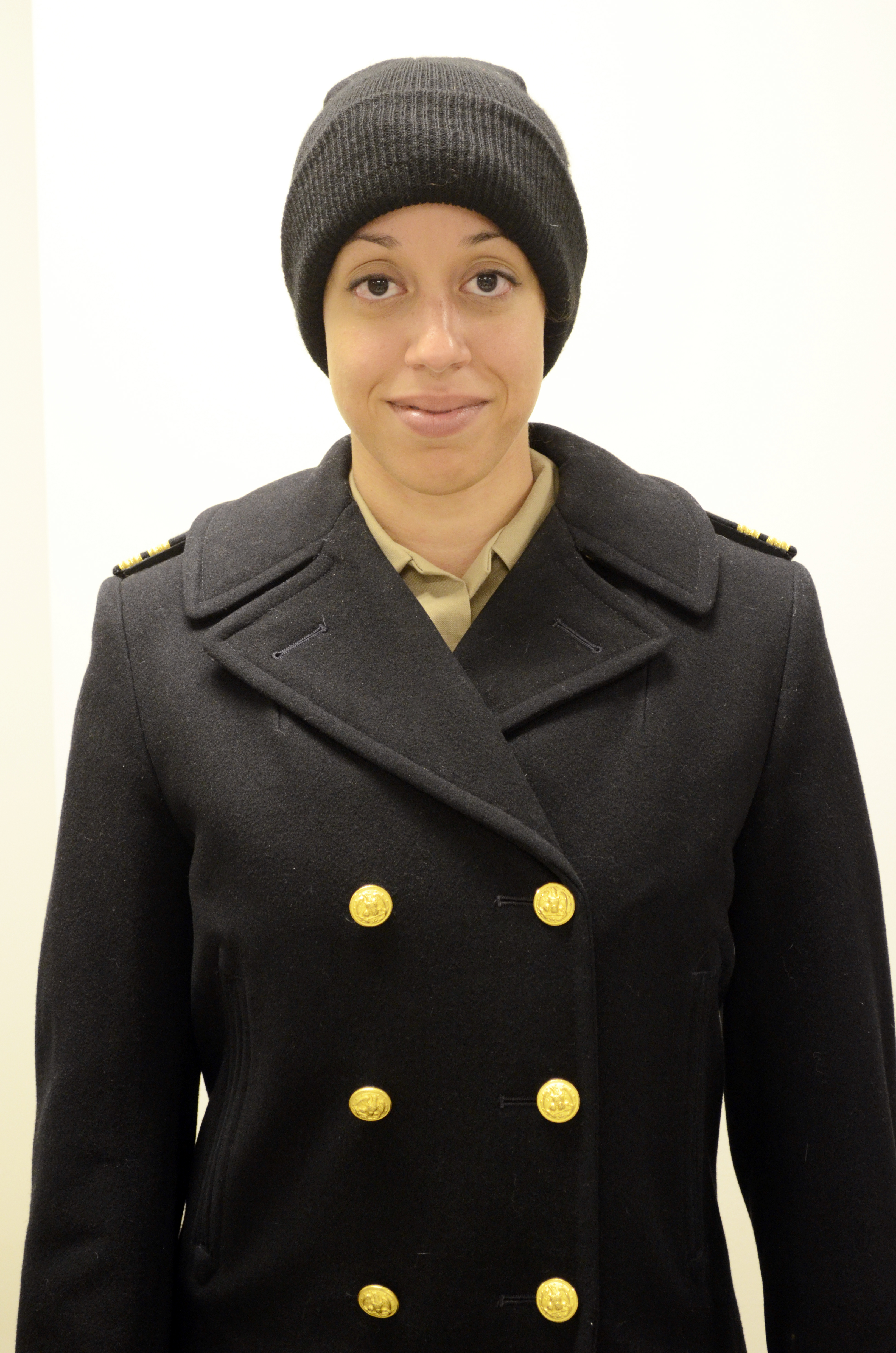 Lieutenant Jessica Crownover of the U.S. Navy wearing a reefer and watch cap.